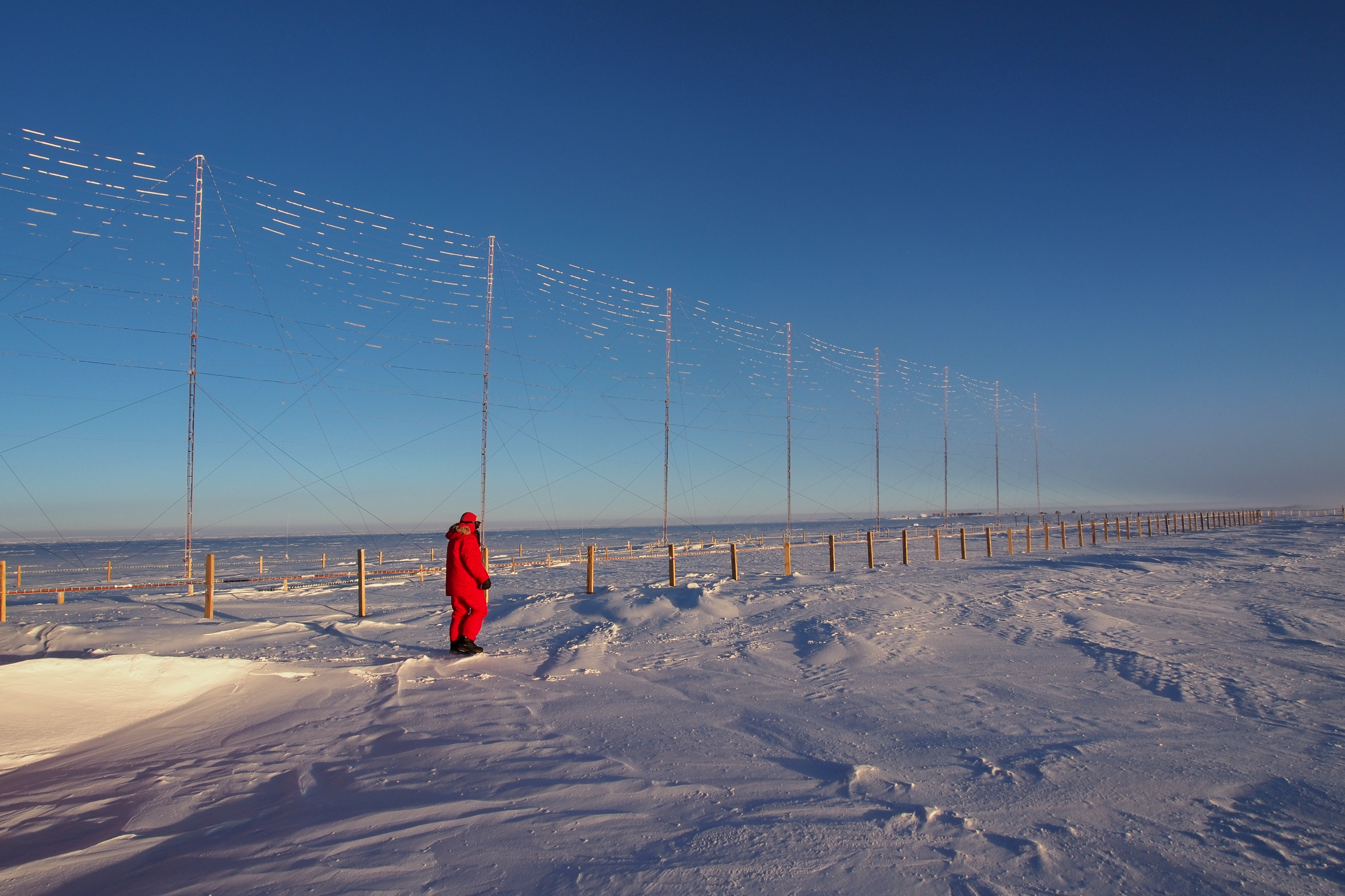 Inspecting the SuperDARN radar antenna installed at the Concordia research station, Antarctica. Ambient temperature is about -70C.